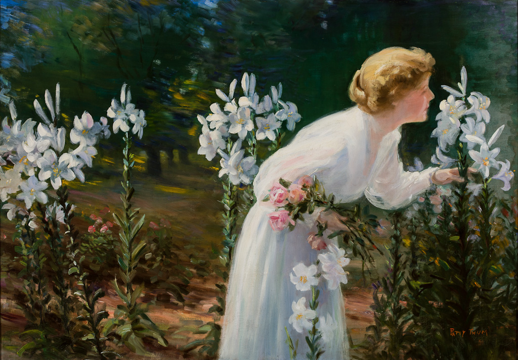 The Lady of the Lilies by Patty Prather Thum, c. 1910, oil on canvas, 25½ × 36 5/8 in. (64.8 × 93 cm.), Speed Art Museum